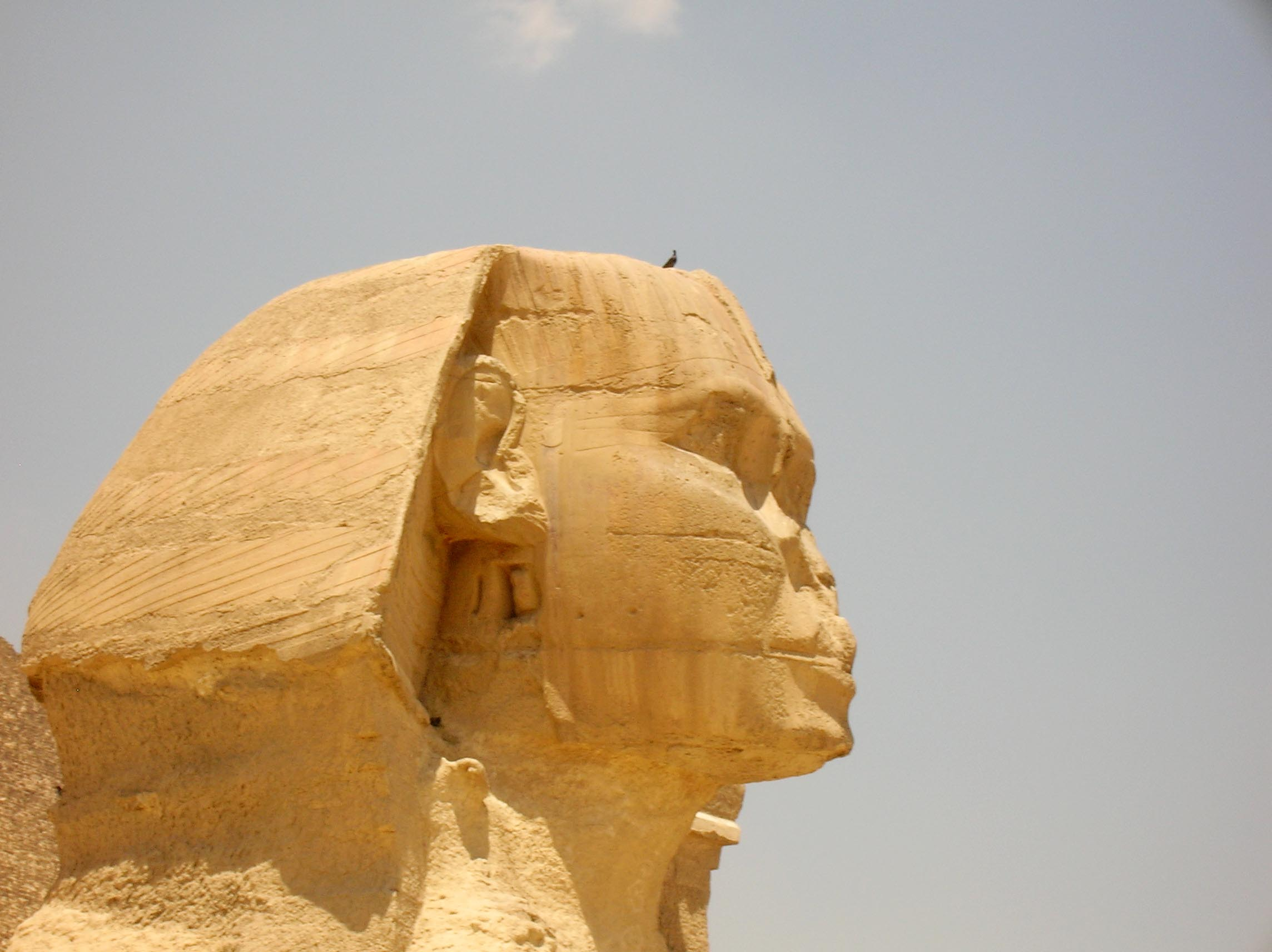 sfinks